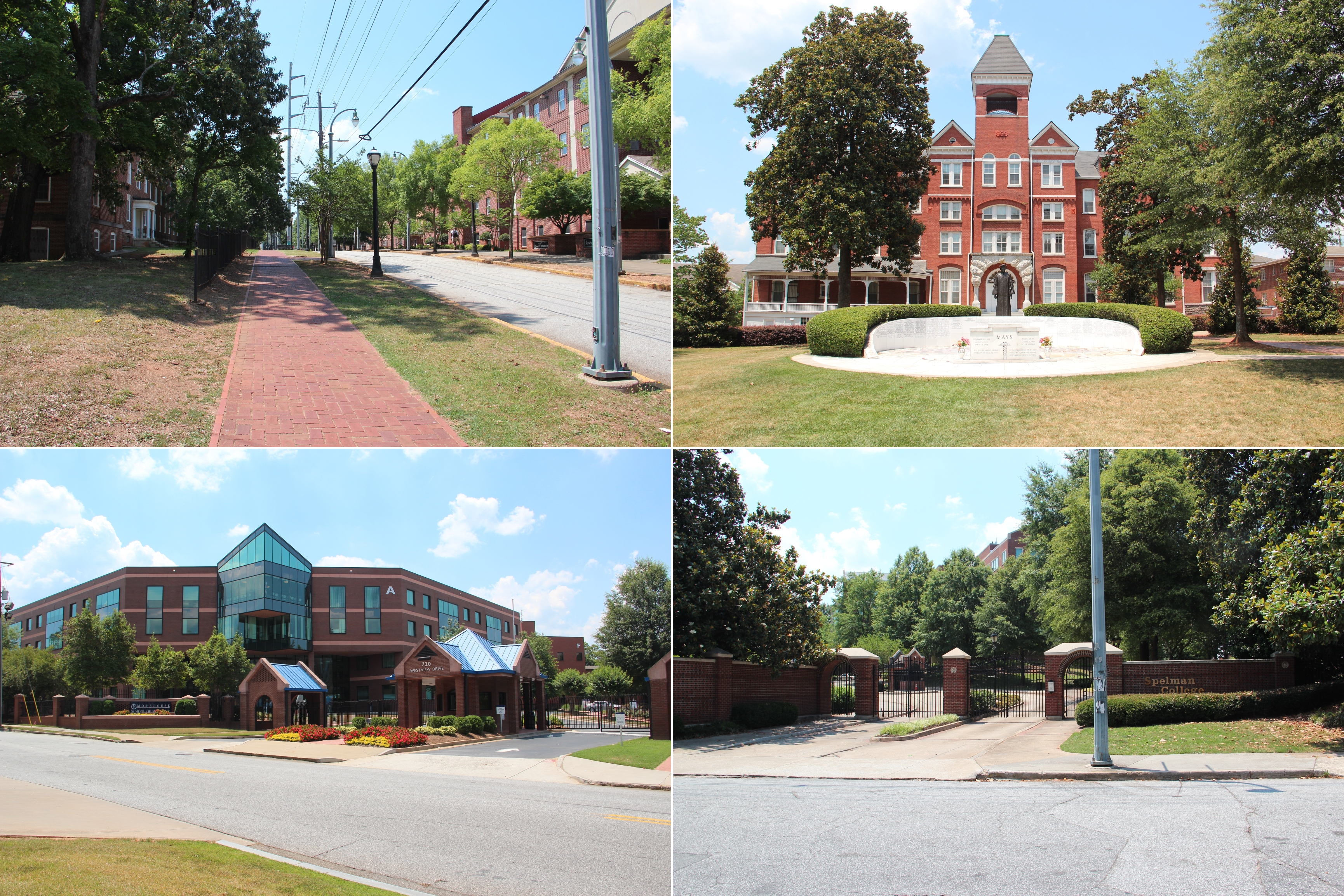 Montage of the Atlanta University Center, Georgia